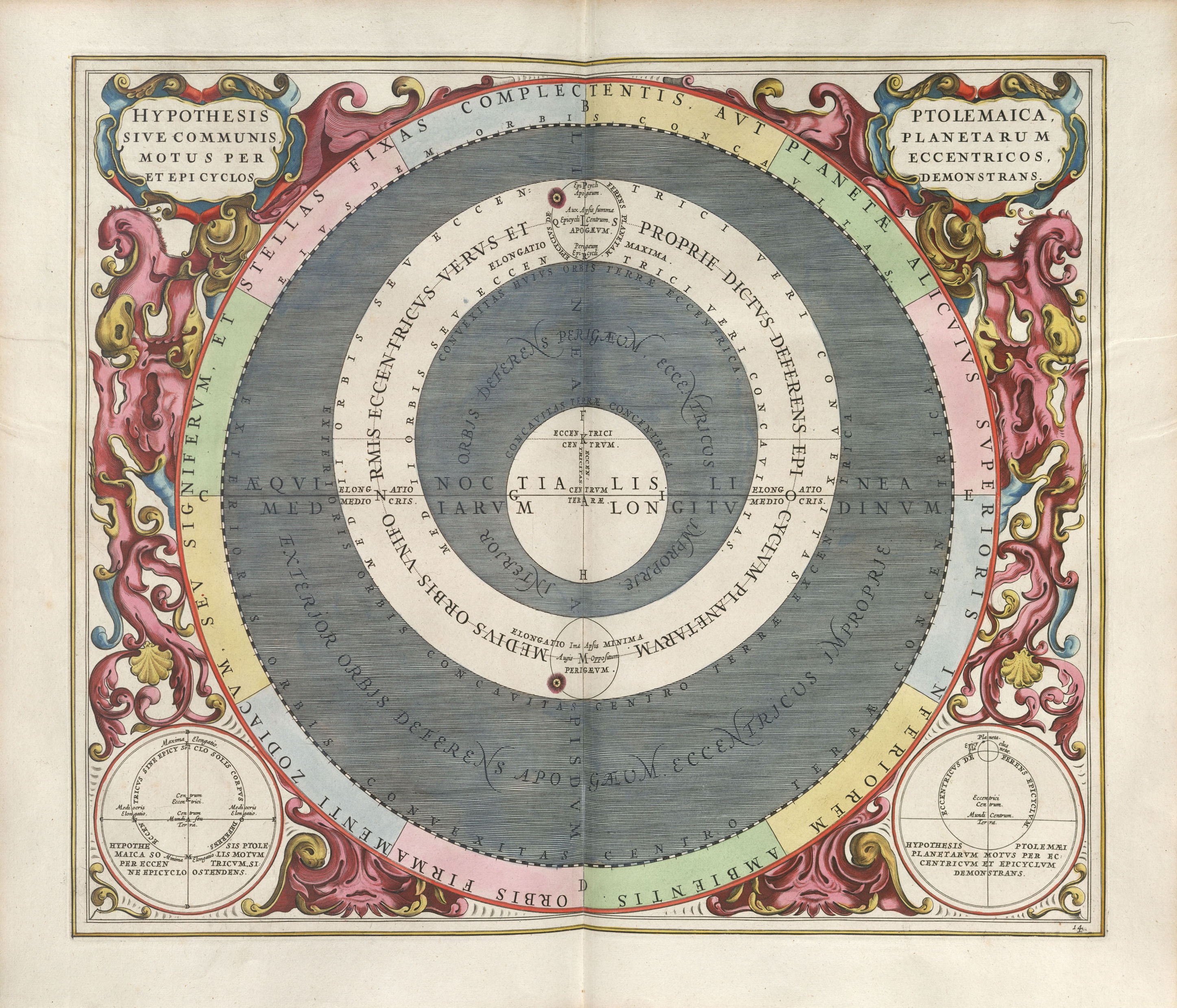 Andreas Cellarius: Harmonia macrocosmica seu atlas universalis et novus, totius universi creati cosmographiam generalem, et novam exhibens. Plate 14. HYPOTHESIS PTOLEMAICA, SIVE COMMUNIS, PLANETARUM MOTUS PER ECCENTRICOS, ET EPICYCLOS DEMONSTRANS - The Ptolemaic or common(ly accepted) hypothesis, demonstrating the planetary motions in eccentric and epicyclical orbits.